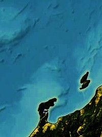 "hakusanse" bank in Japan Sea